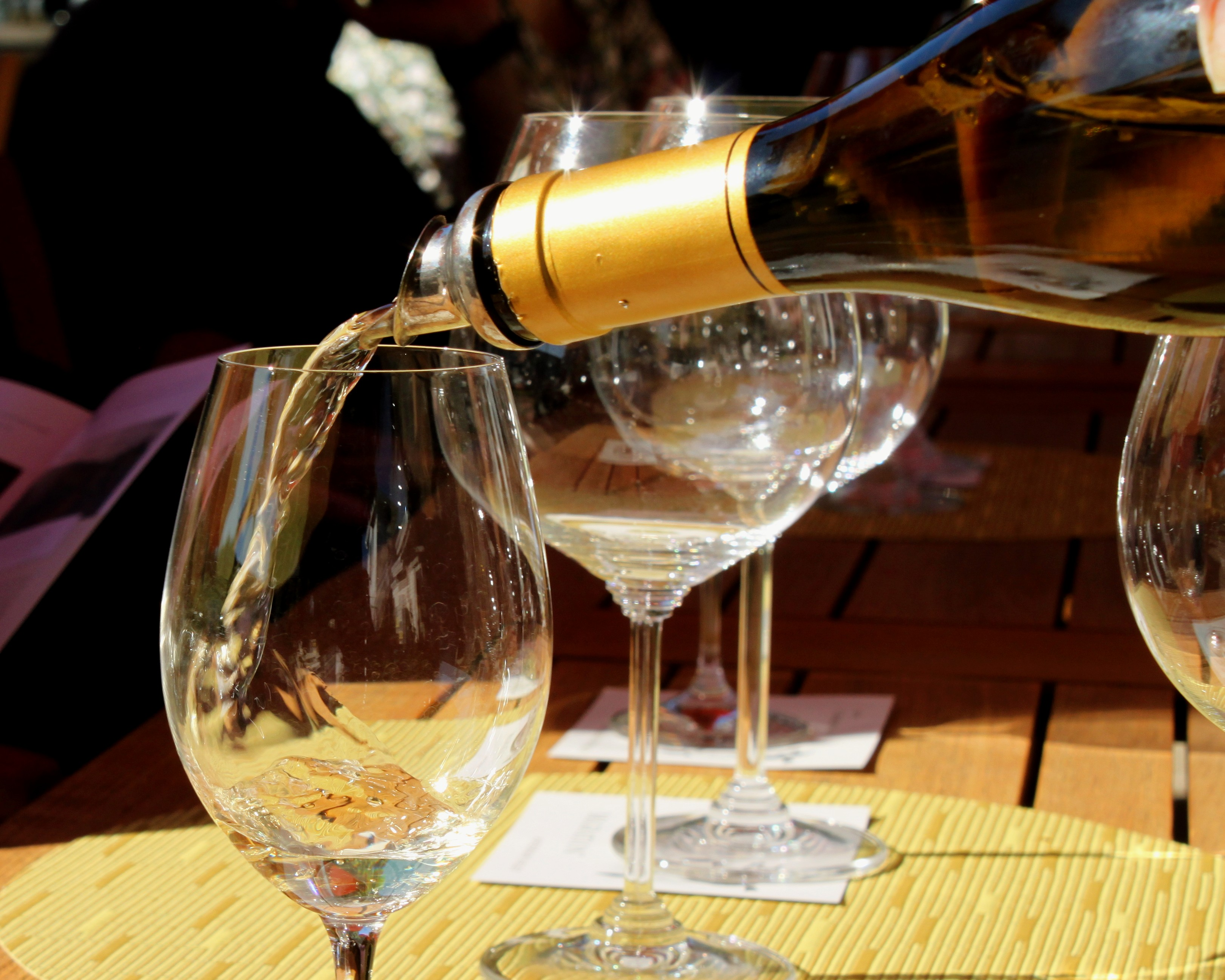 Duckhorn brand excellent chardonnay ! Goldeneye winery & wine tasting City : Philo in Mendocino County, California